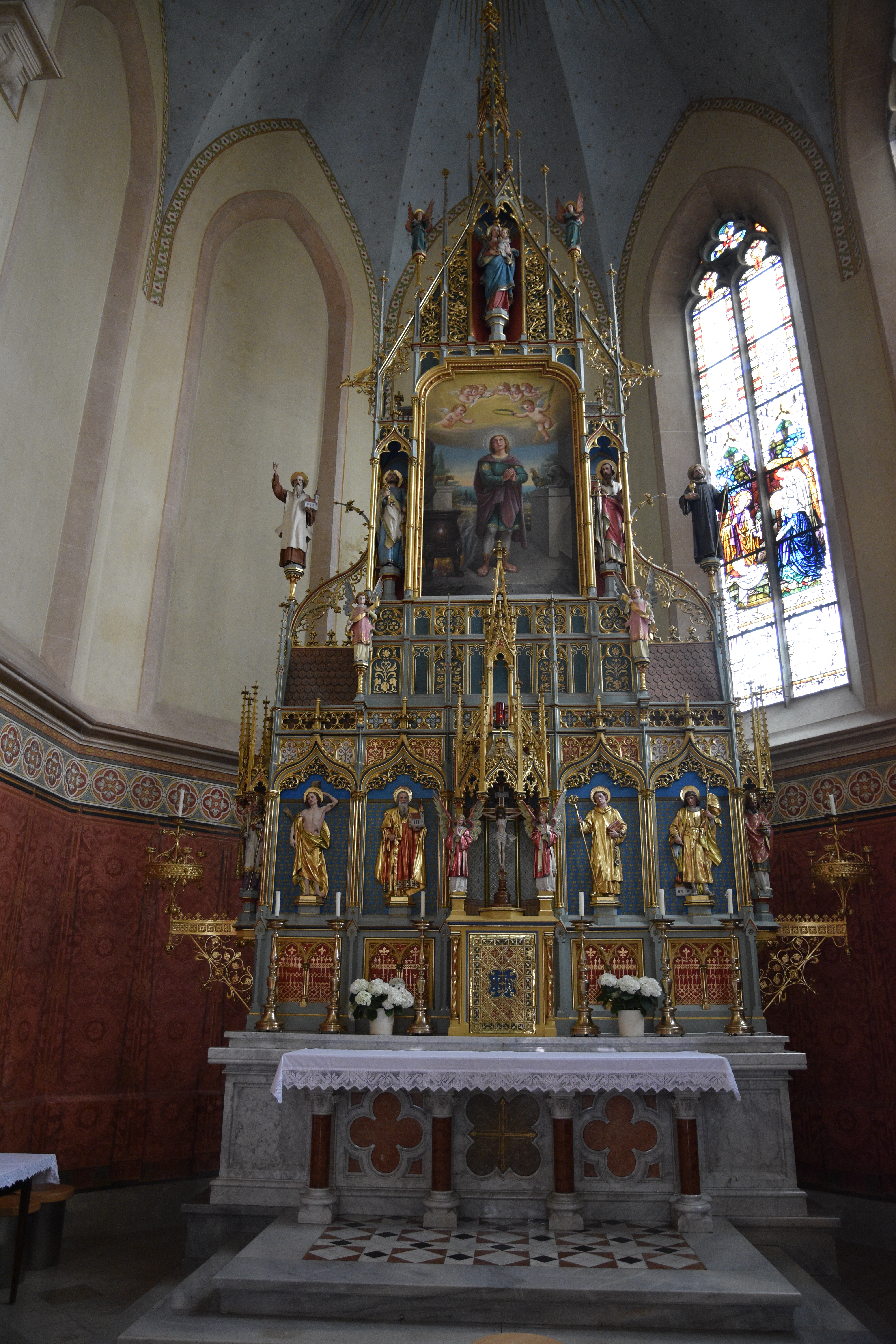 Church Pfarrkirche St. Veit Weißkirchen Styria Interior